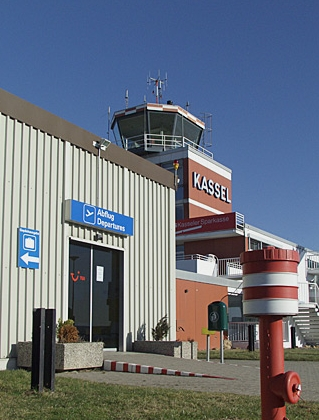 Flughafen Kassel-Calden (Hessen), Tower und Abflughalle